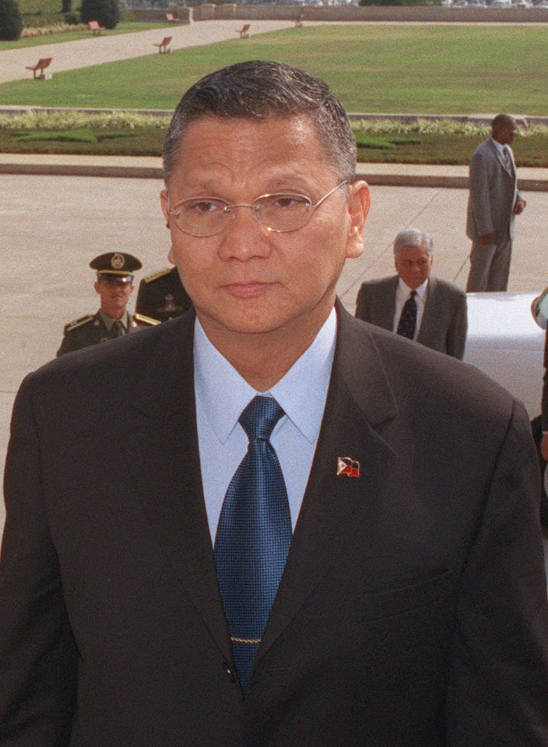 Cropped from this U.S. Defense Department photo. Original description: Secretary of Defense Donald H. Rumsfeld (left) escorts Minister of National Defense Angelo Reyes, of the Republic of the Philippines, into the Pentagon on Aug. 12, 2002. The two defense leaders will hold discussions on a broad range of security topics, including the war on terrorism. DoD photo by R. D. Ward. (Released)